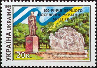 Taras Hryhorovych Shevchenko Statue in Buenos Aires on the postal stamp of Ukraine "100 years to the first Ukrainian settlers in Argentina", 1997